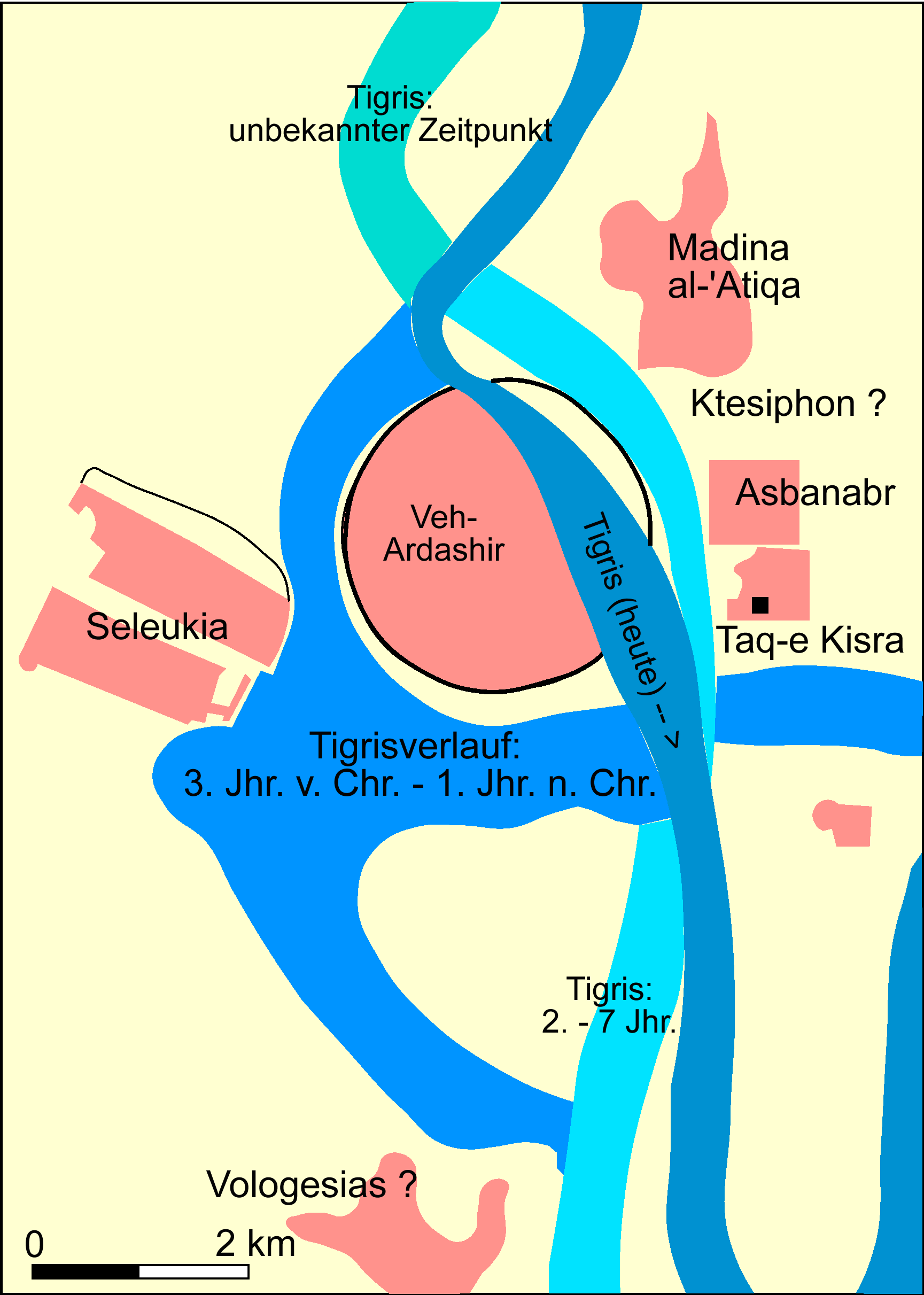 Seleucia/Ktesiphon, archaeological map